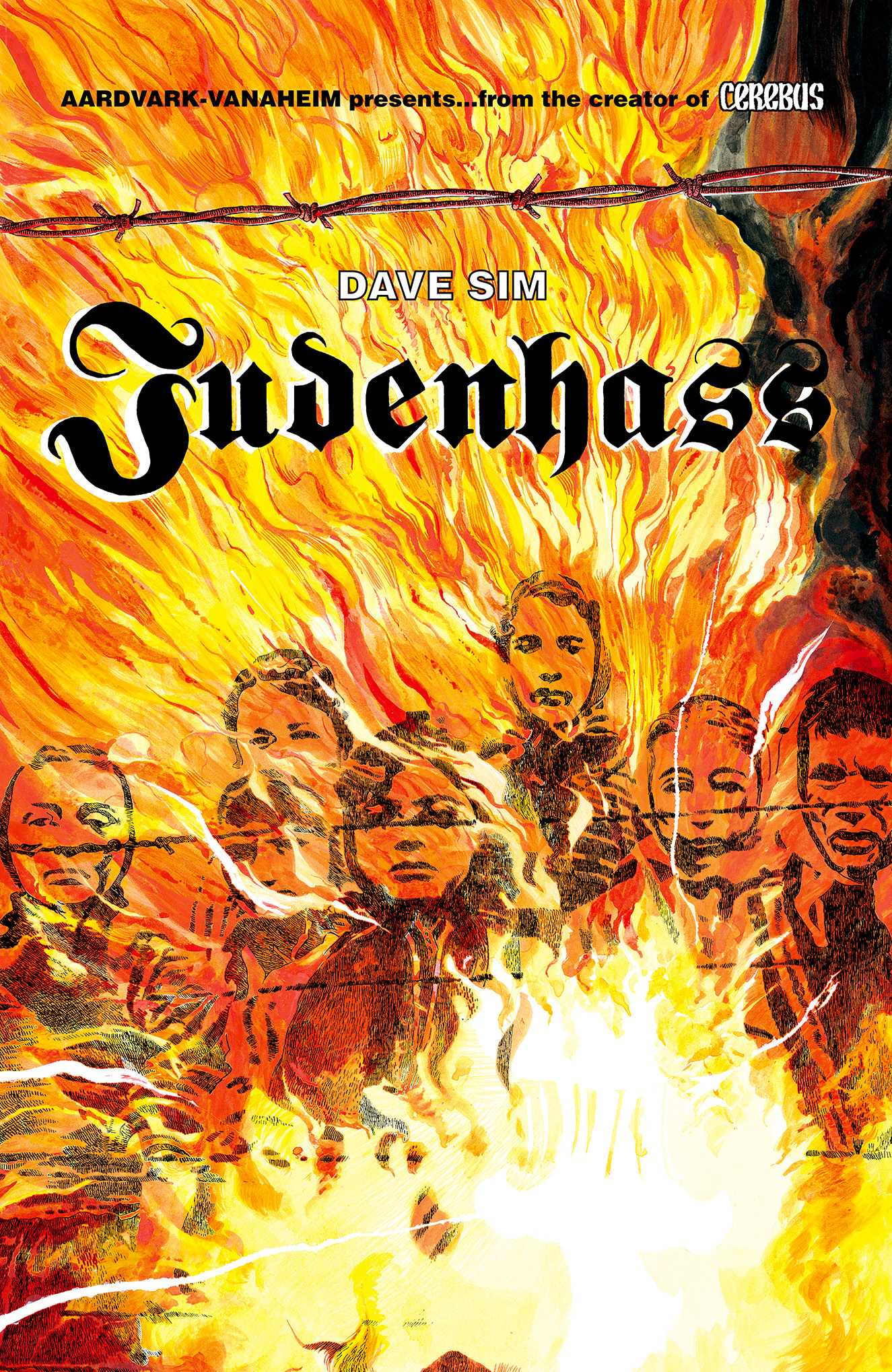 Page from Dave Sim's comic book Judenhass about the Holocaust Released to the Public Domain by its creator Dave Sim in November 2014